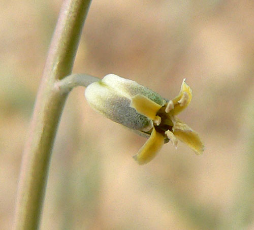 Streptanthella longirostris in sand below hills by Soda Dry Lake, 3 km south of Baker, California